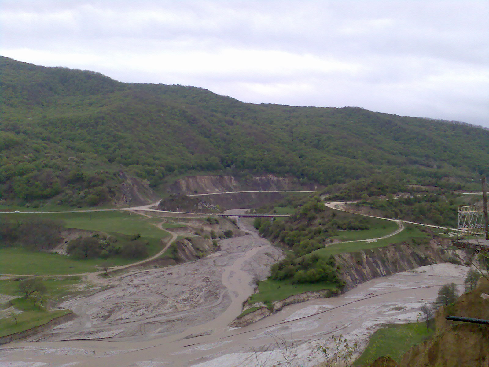 The Confluence of The Aktash (right) and Salas (left) Rivers